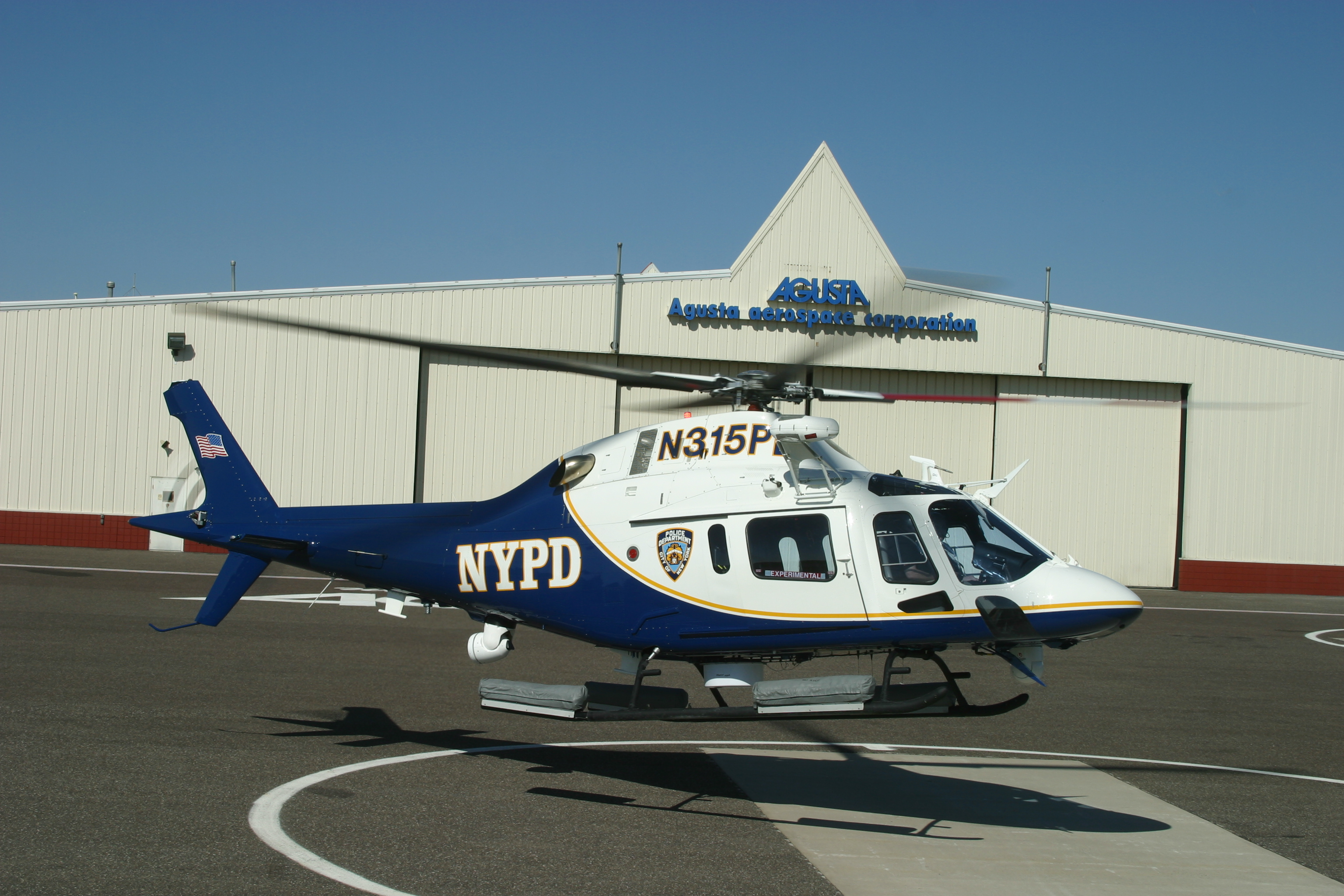 This is the N.Y.P.D. newest aircraft the Agusta A119 Koala. You can see these flying all over New York City. They purchased four of these aircraft to replace their old fleet of Bell Jet Rangers. I beleive they still fly the Bell 412's.